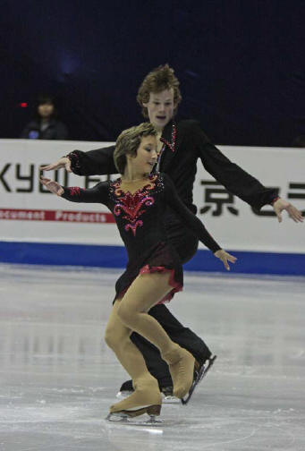 Sabina IMAIKINA and Andrei NOVOSELOV (rus).Grand Prix Final 2008 – Juniors - Pairs